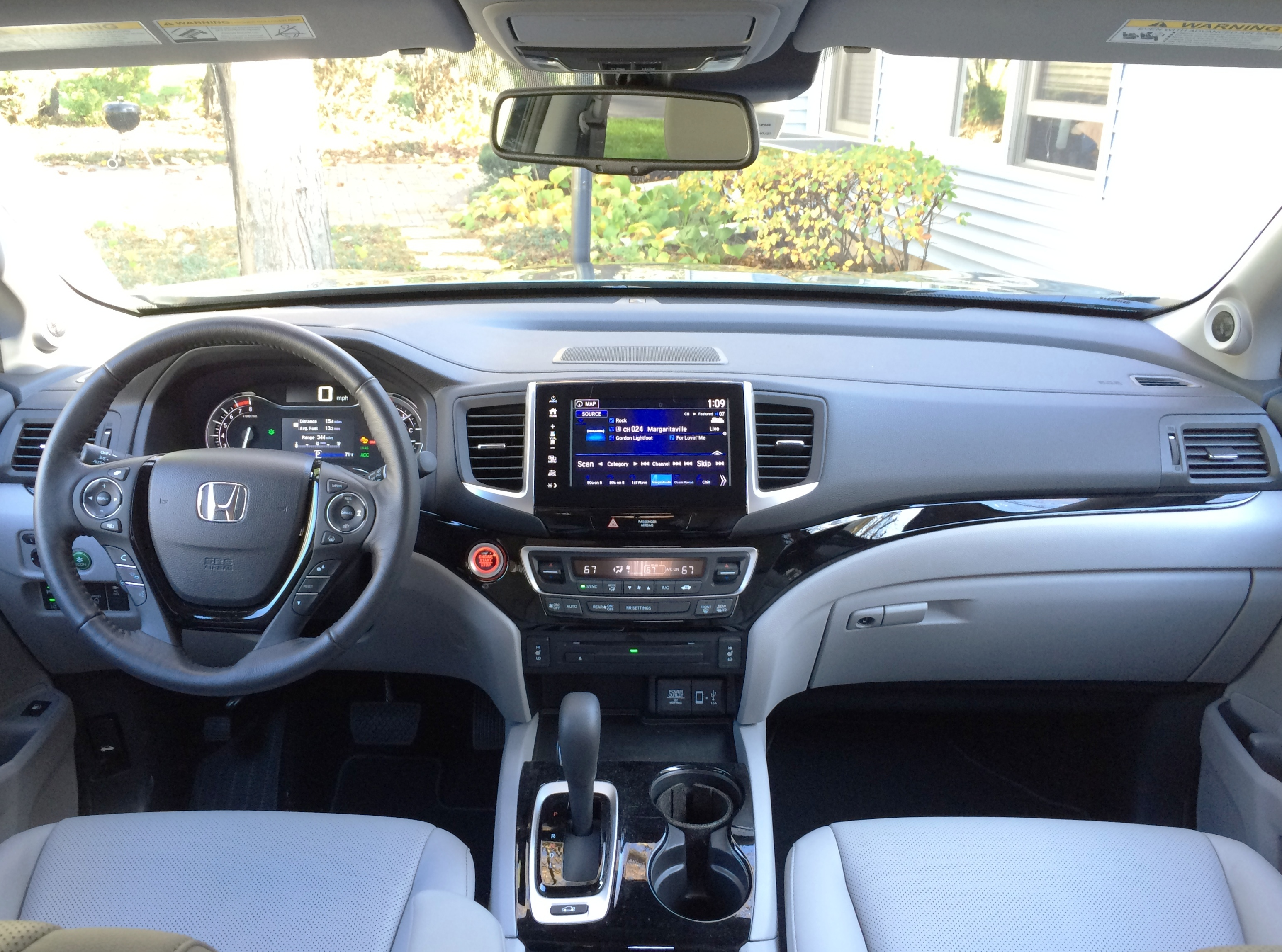 Dashboard of a 2017 Honda Ridgeline RTL-E trim